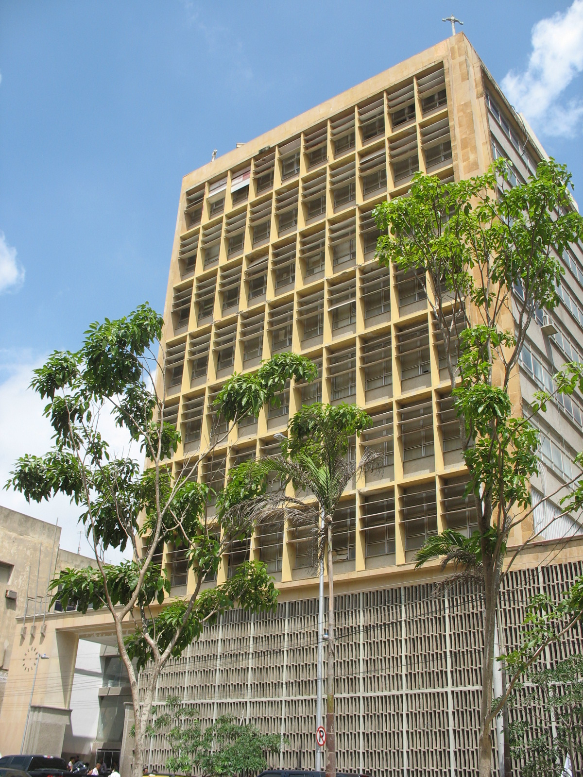 Barranquilla Alcaldía